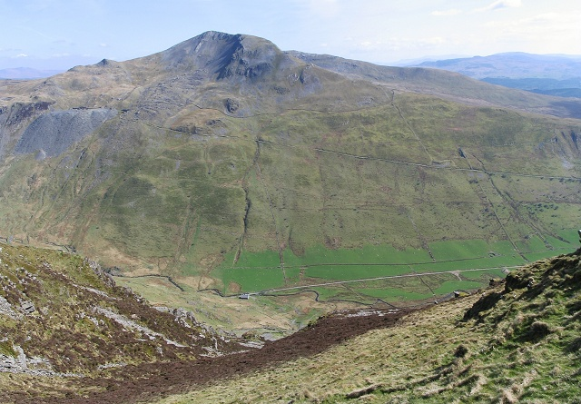 Northwest face of Moelwyn Mawr. Here you can see from the valley floor of Cwm Croesor up all 1900ft to the top of Moelwyn Mawr. The sense of scale is enormous - a view well worth climbing Cnicht for.